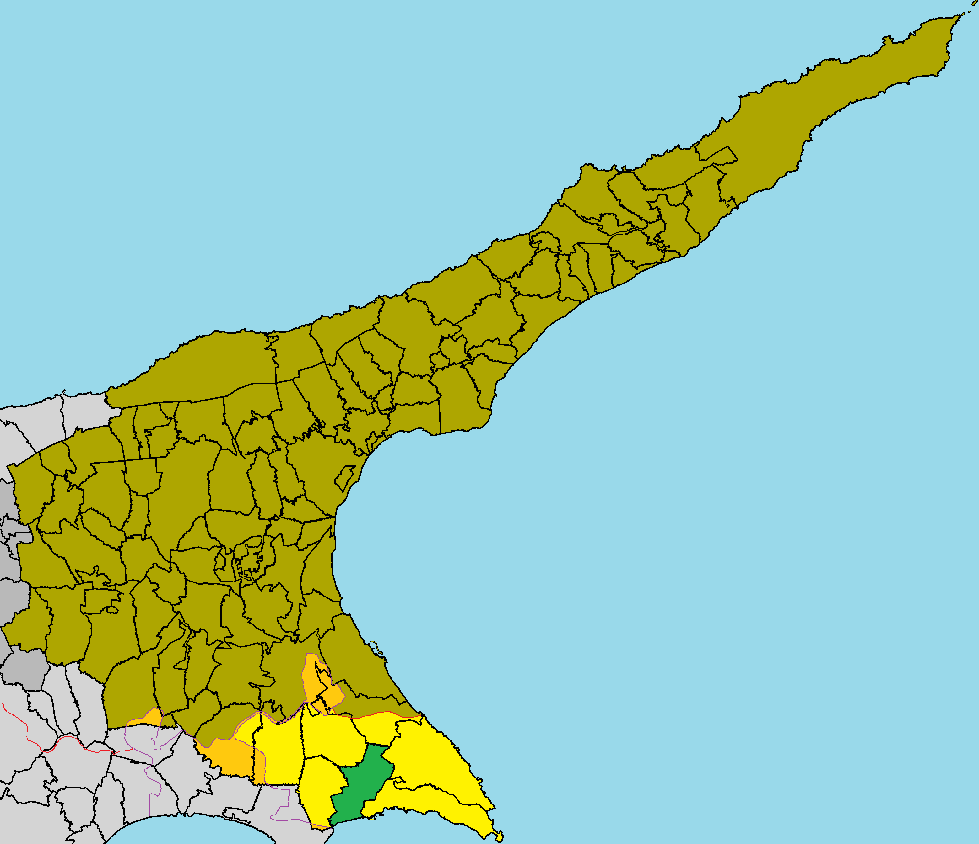 Sotira, Famagusta in Famagusta District (de jure).